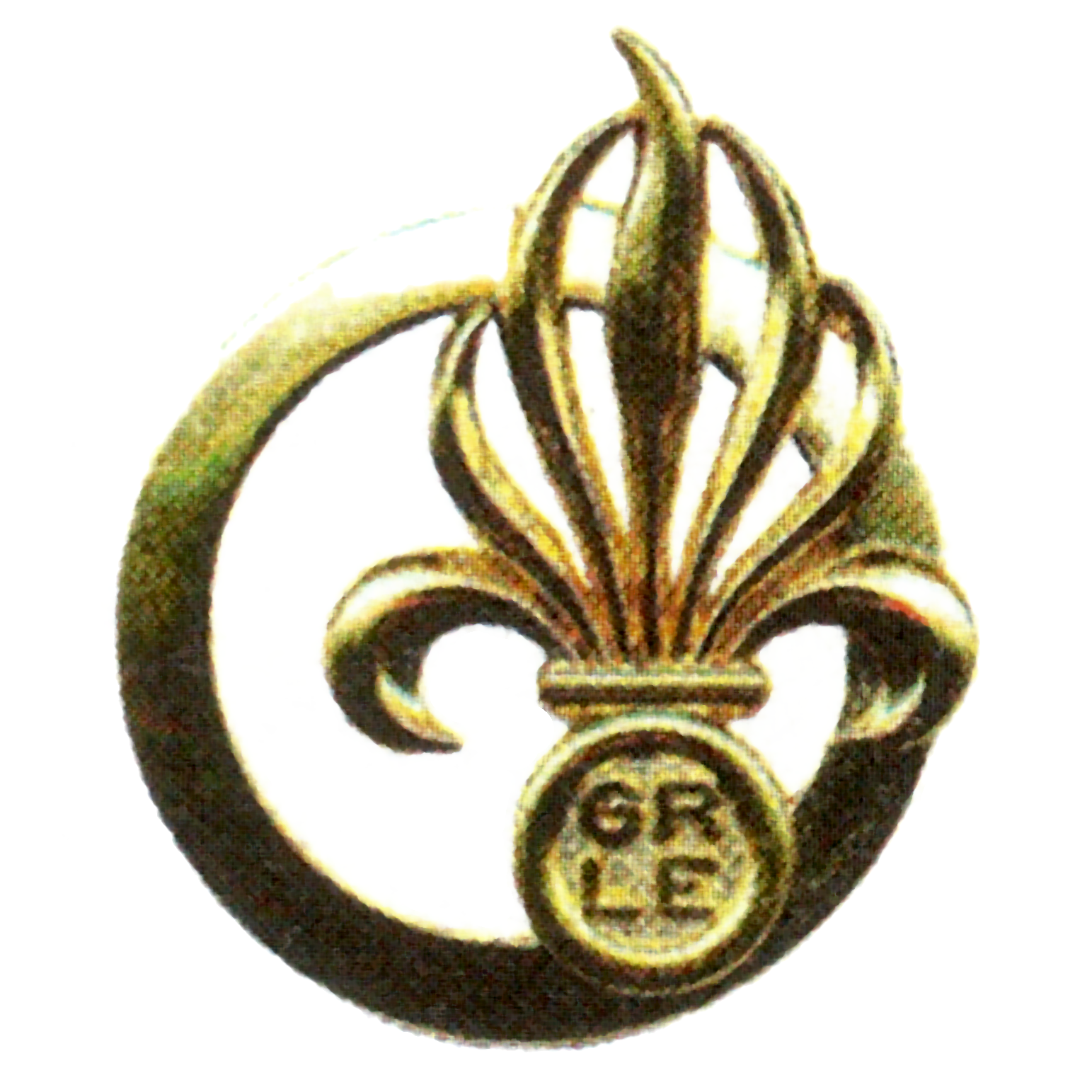 Cap insigna of the GRLE, recruitment unit of the French foreign Legion